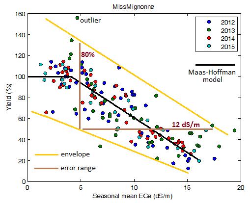 Yield of potato versus soil salinity, data from Salt Farm